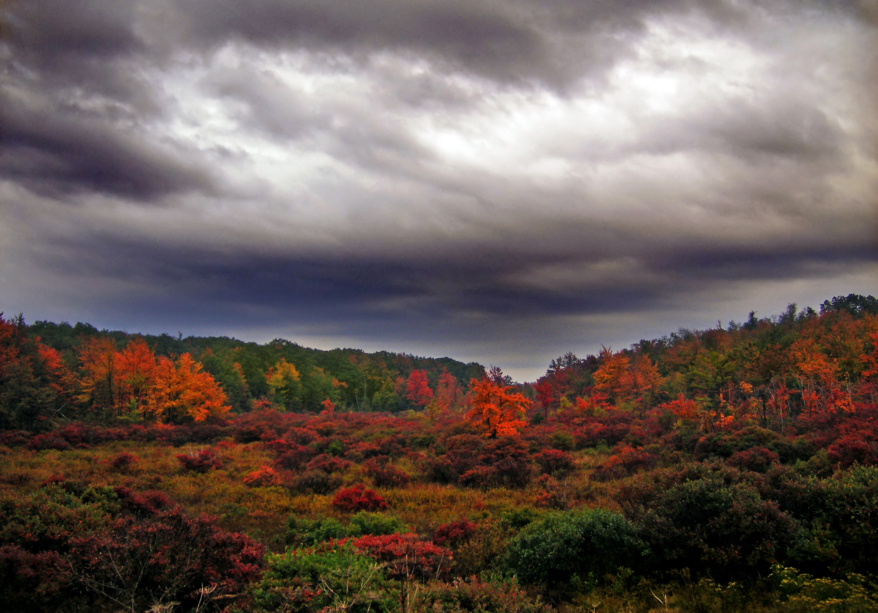 Wetland, northwest Monroe County, under cloudy skies.